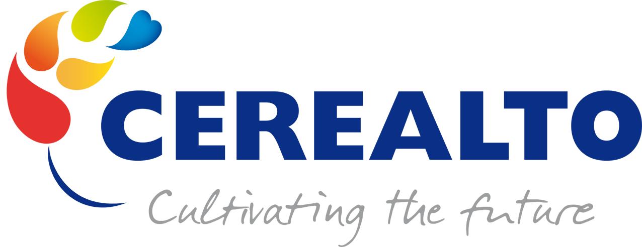 Cerealto logo